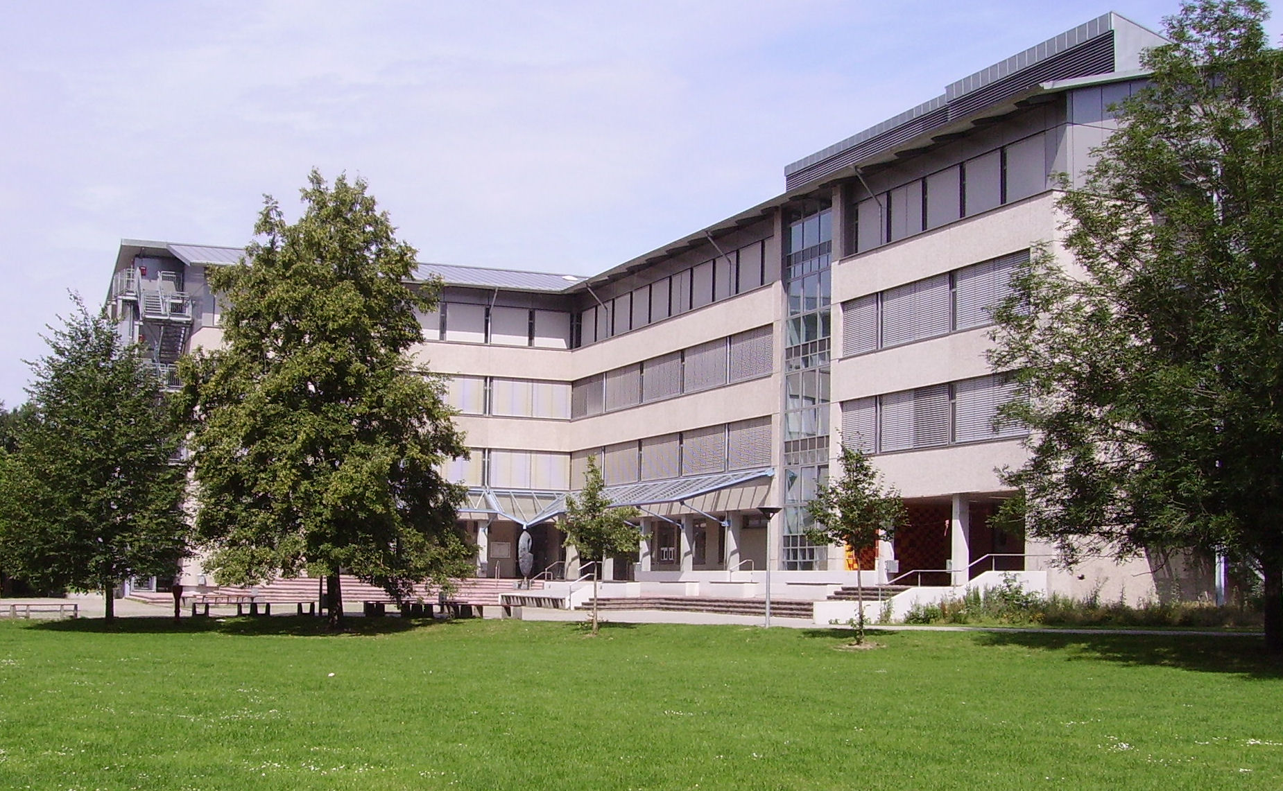 view of Limburgerhof, Germany